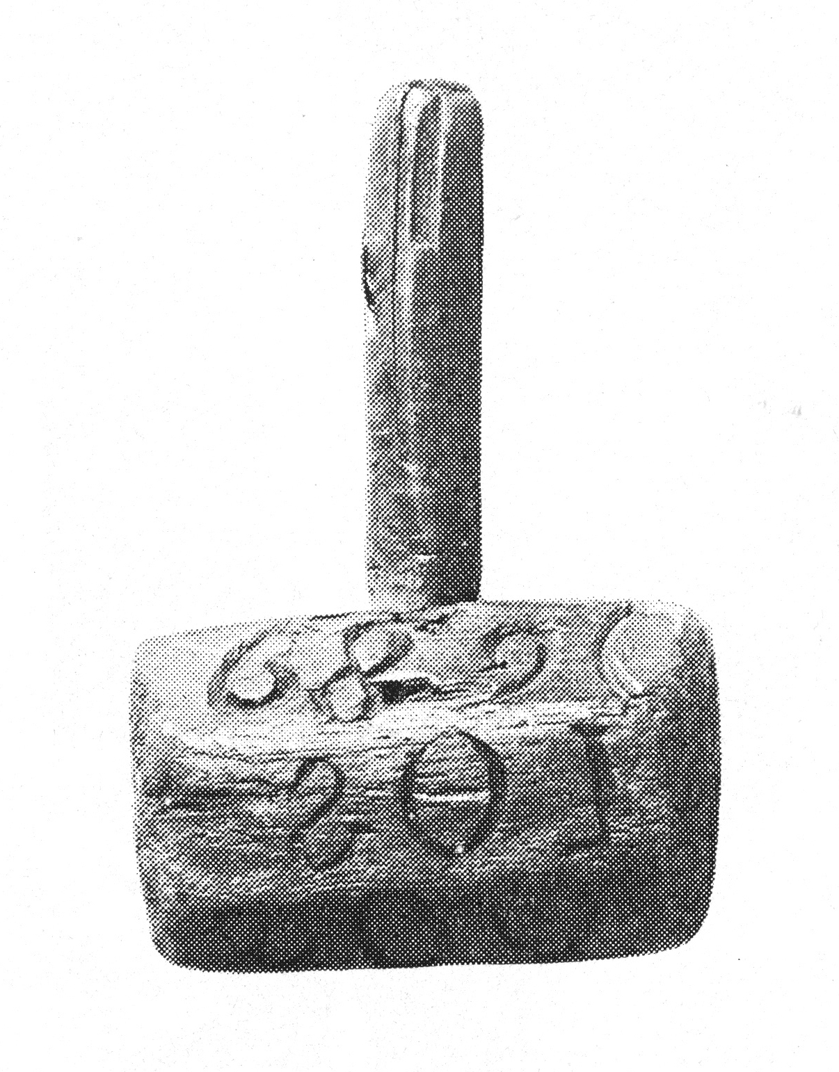 Poor-gavel from Helsingland. The poor fetched the gavel from him who had most recently housed a pauper, and brought it with him to the next farm, which had to give him board and lodging.